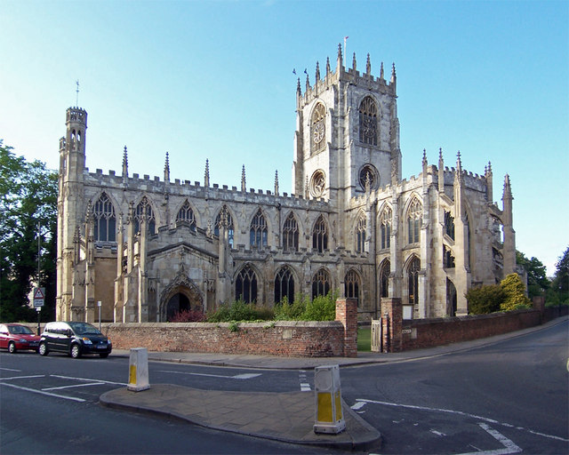 Church of Saint Mary, Beverley, East Riding of Yorkshire, England.Pevsner says "That St. Mary at Beverley is one of the most beautiful parish churches in England is universal knowledge."